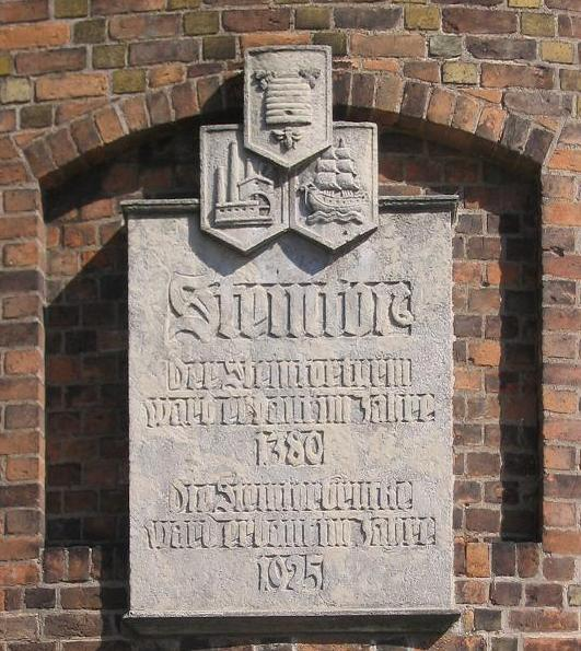 Inscription at Steintorturm (built in the first half of the 15th century), one of the four still existing of the formerly nine gate towers in Brandenburg an der Havel, state Brandenburg, Germany. The date in this inscription (built in 1380) is probably not correct.